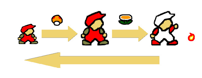 Power up system